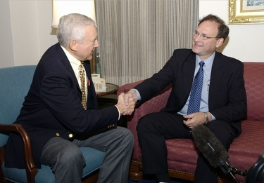 Following his nomination to the Supreme Court, then-Judge Samuel Alito visits with Senator Hatch, who has overseen the Senate-approval process of eight of the current Court justices.